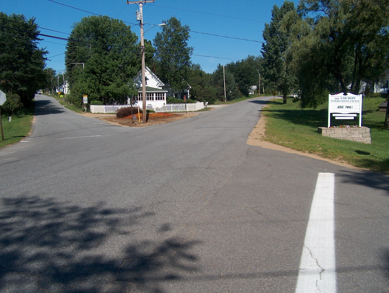 Crossroads in village of Loudon, New Hampshire. Photo by Ken Gallager.